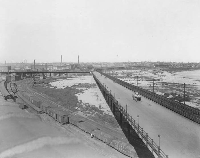 Intercity Viaduct Distant view looking west, showing horses and buggies.